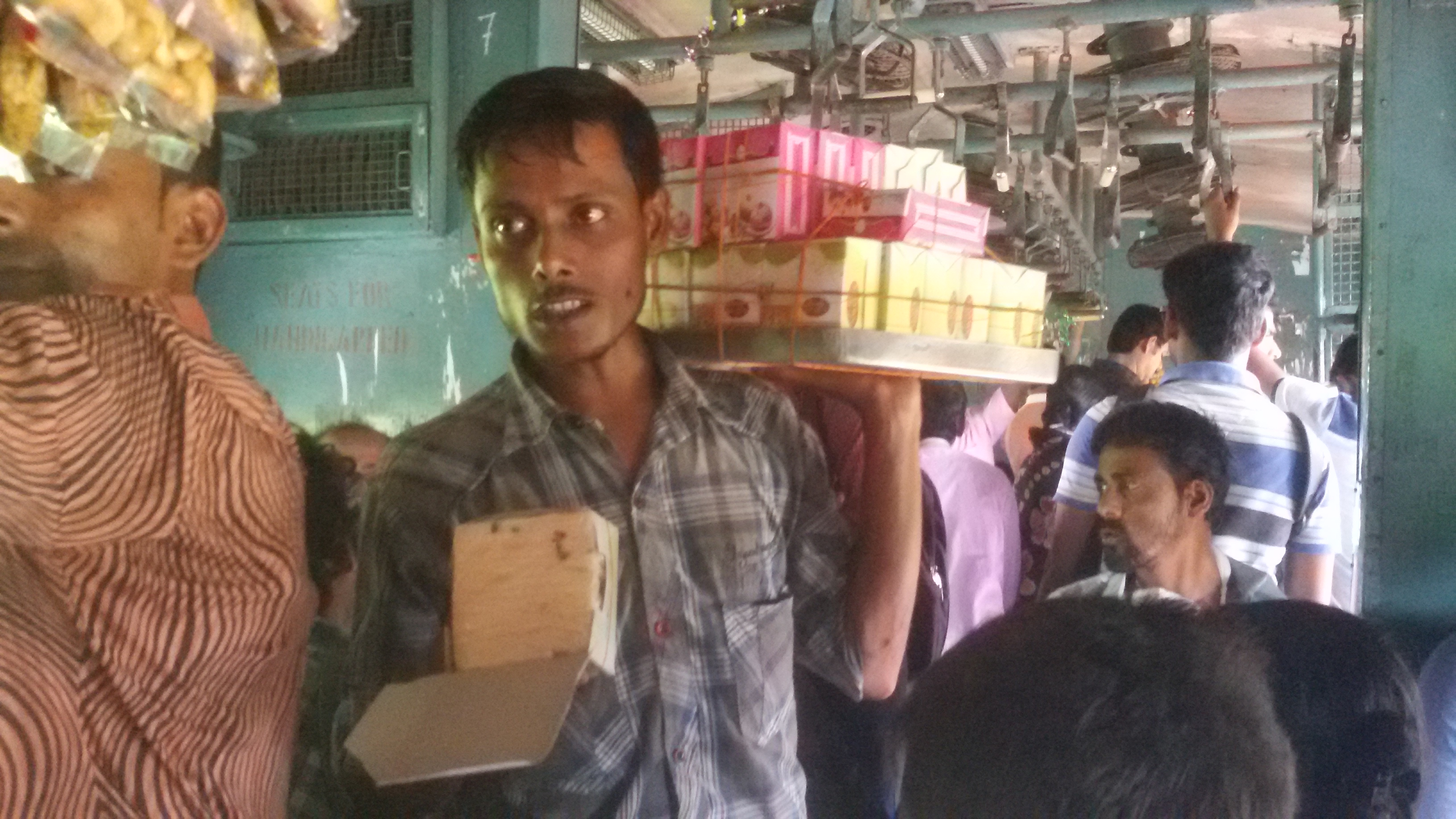 This is the image of a hawker selling sonpapdi.